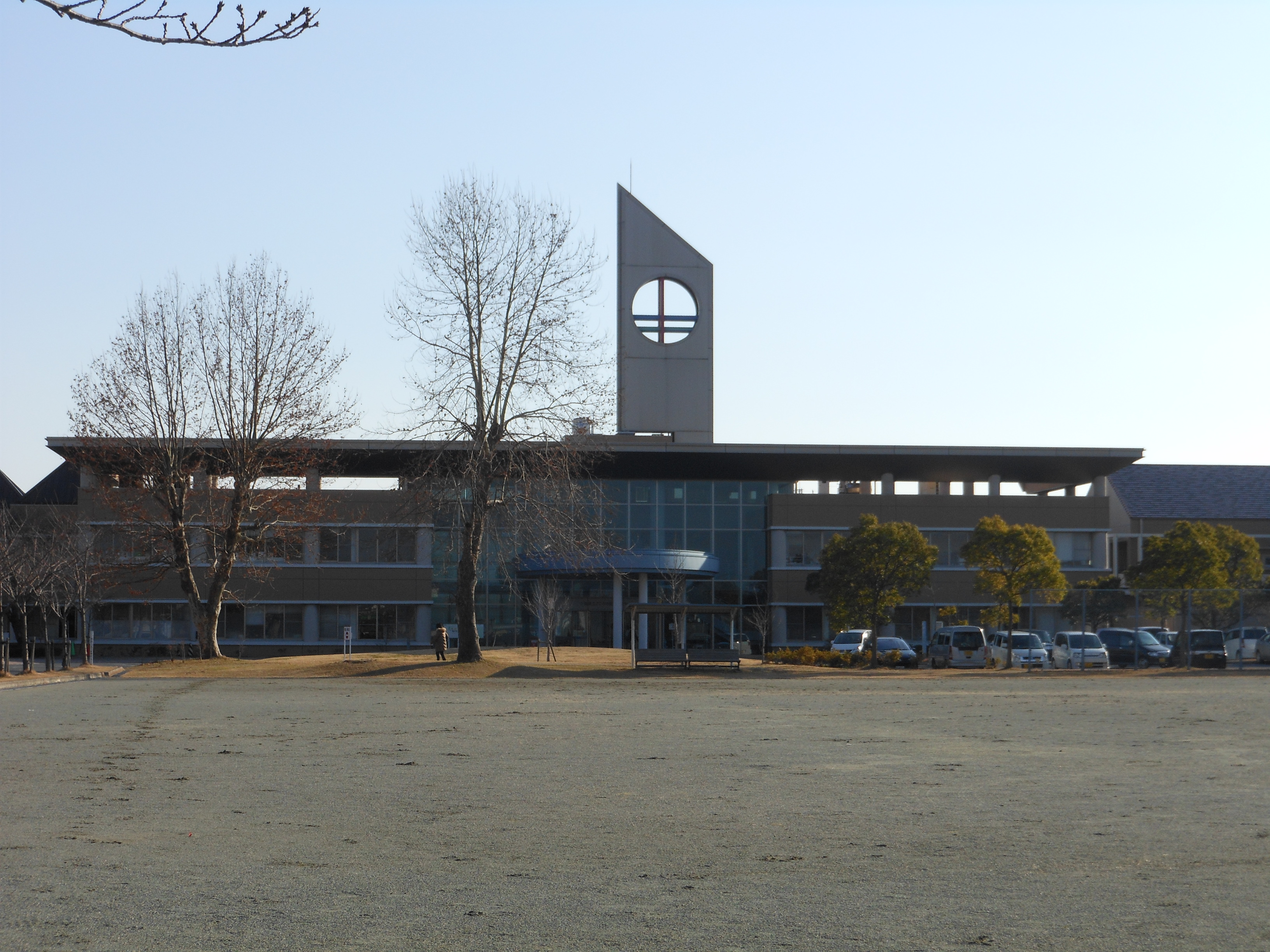 This is the Mie Prefectural Mental Medical Center in Shiroyama, Tsu, Mie, Japan.